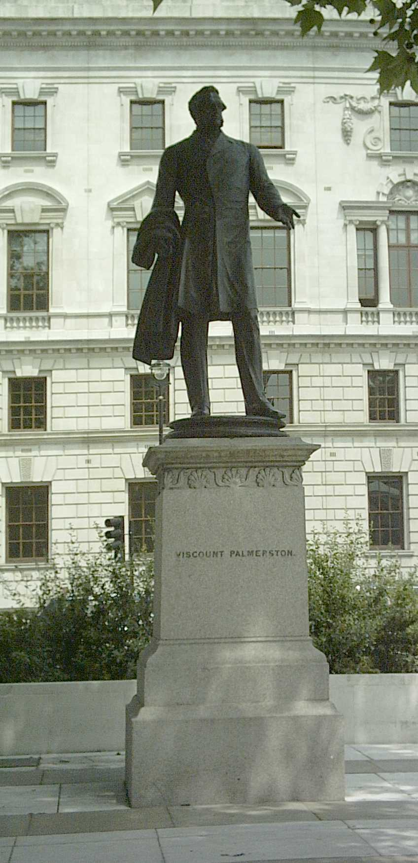 Viscount Palmerston statue in Parliament Square, London; 13 June 2006--Runcorn 22:12, 13 June 2006 (UTC)